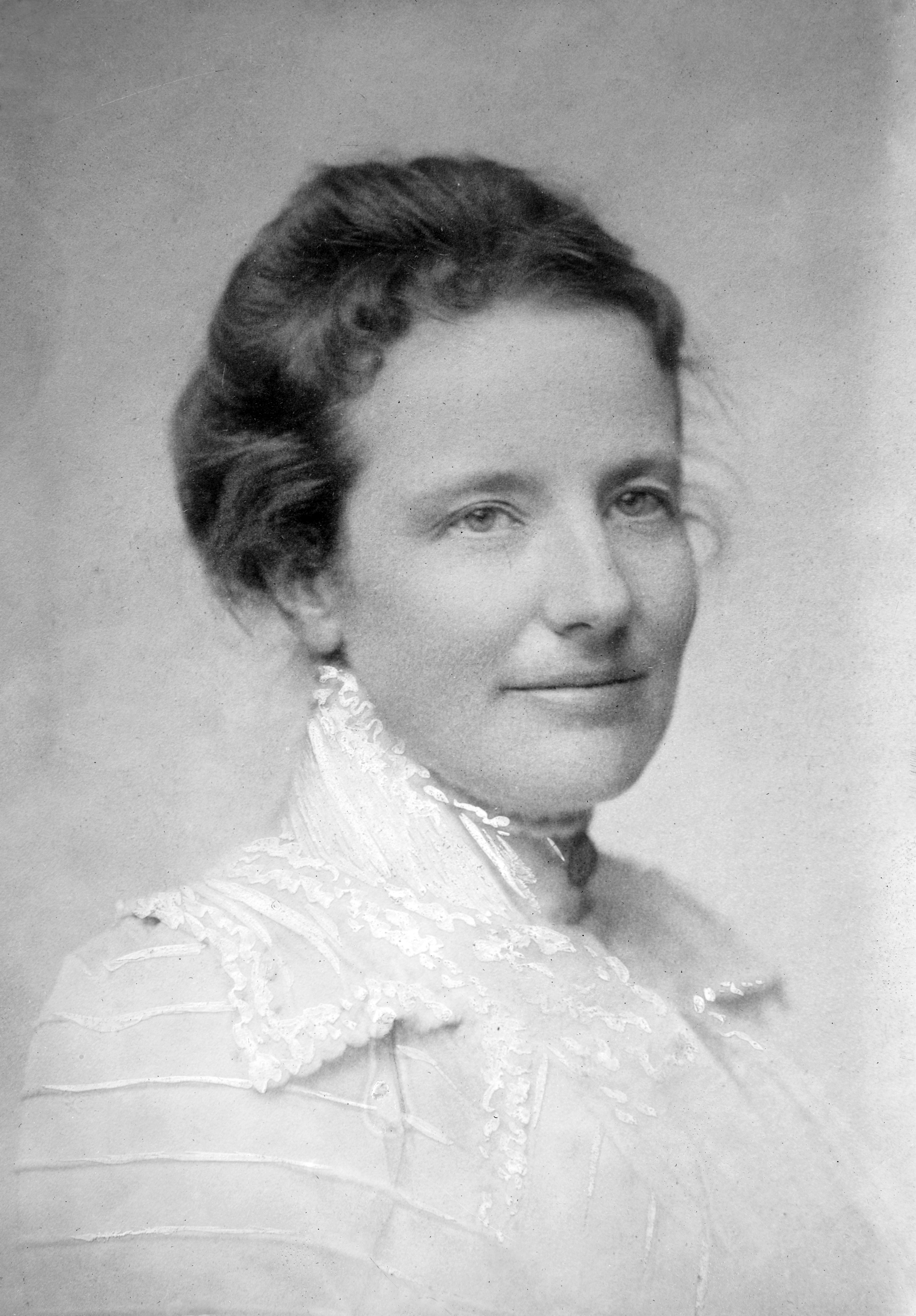 Edith Kermit Carow Roosevelt, second wife of Theodore Roosevelt